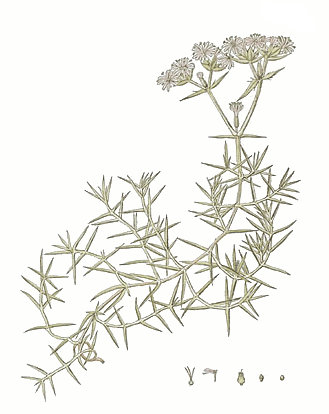 Illustration of Drypis Spinosa P49